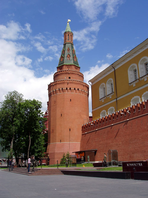 Moscow, the Kremlin. Uglovaya Arsenalnaya Tower.